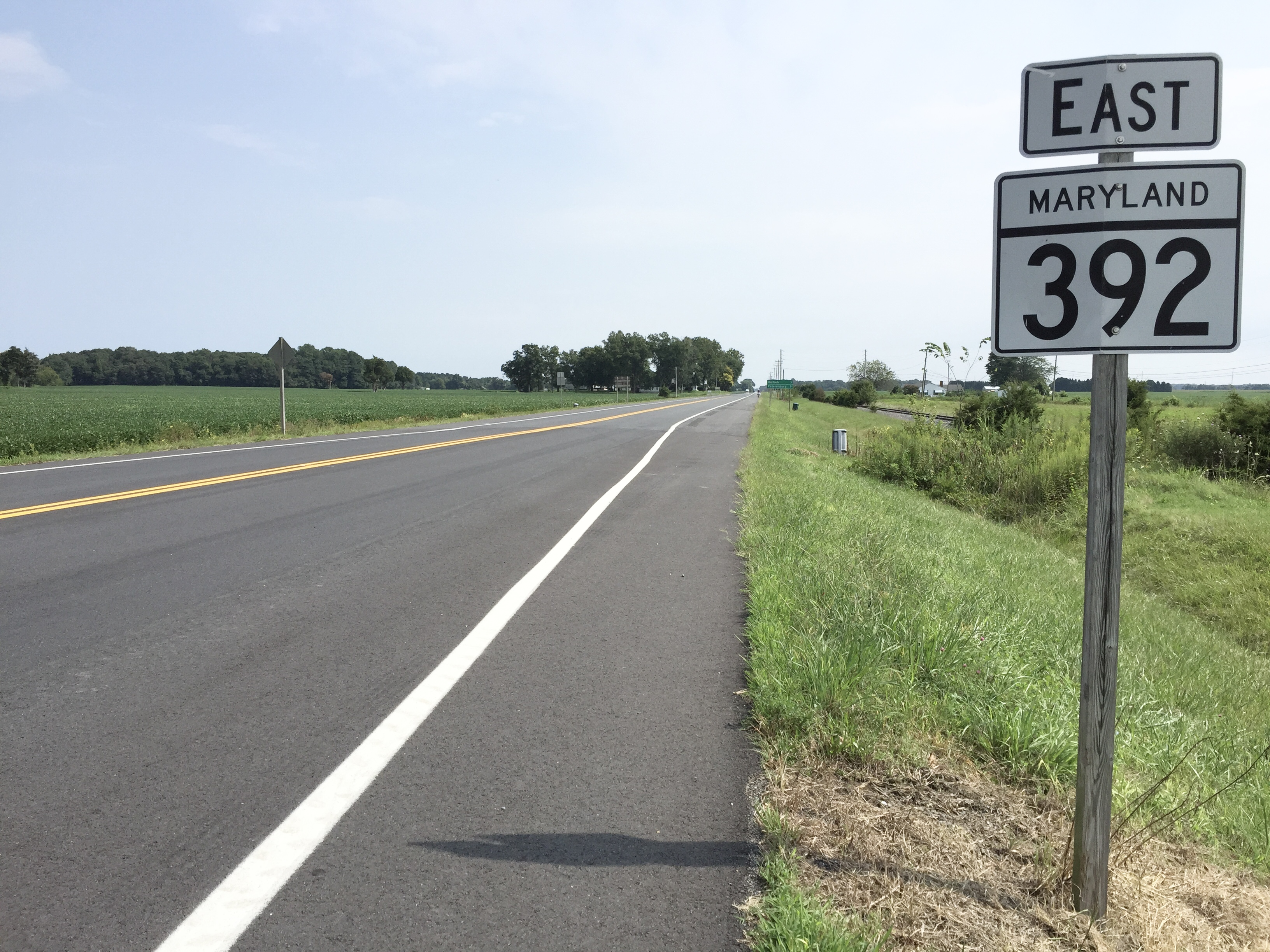 View east along Maryland State Route 392 (East New Market-Hurlock Road) at Harvey Street in East New Market, Dorchester County, Maryland